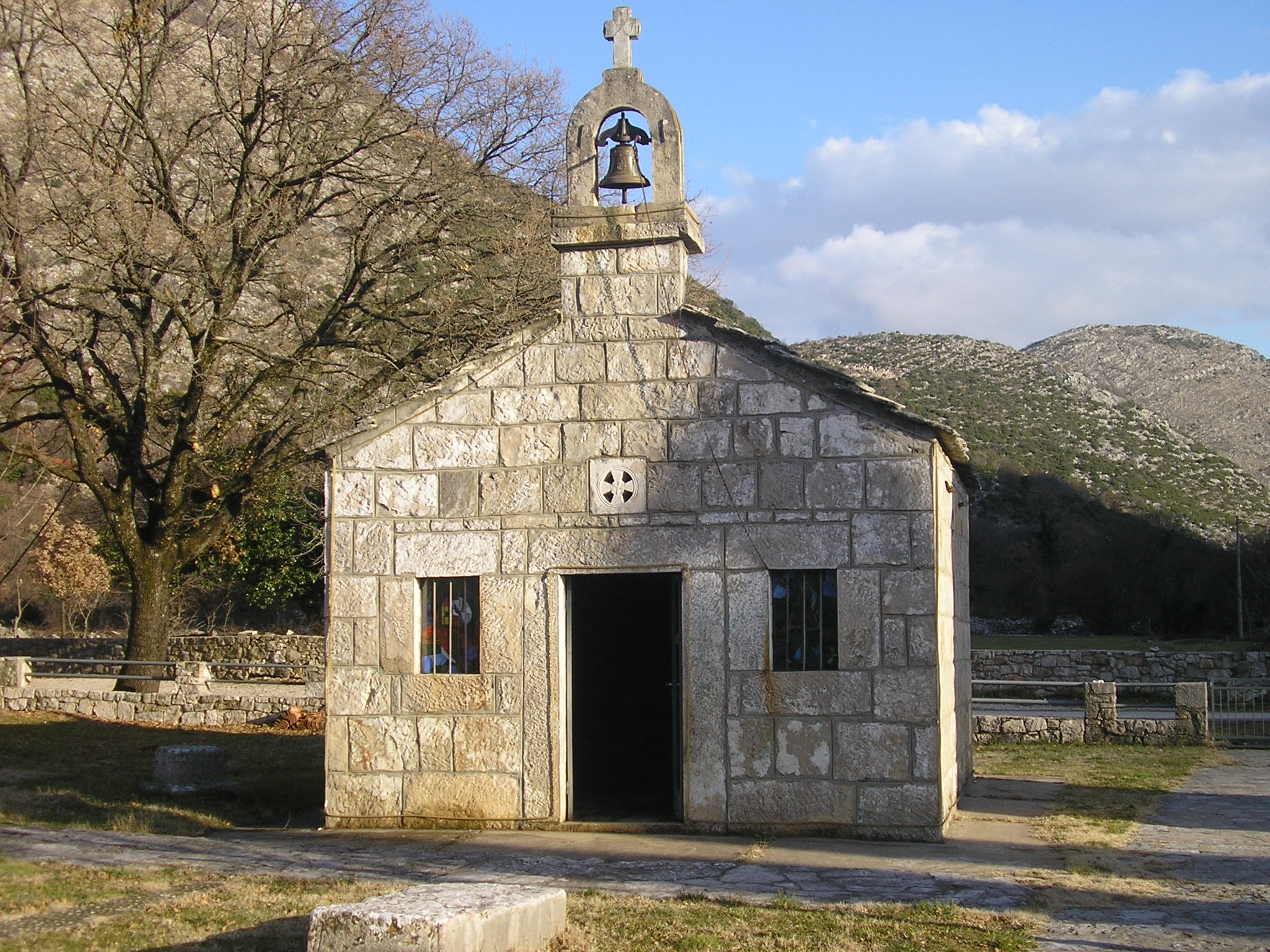 St. John and Luke's and Our Lady of Lourdes' Chapel in Hutovo